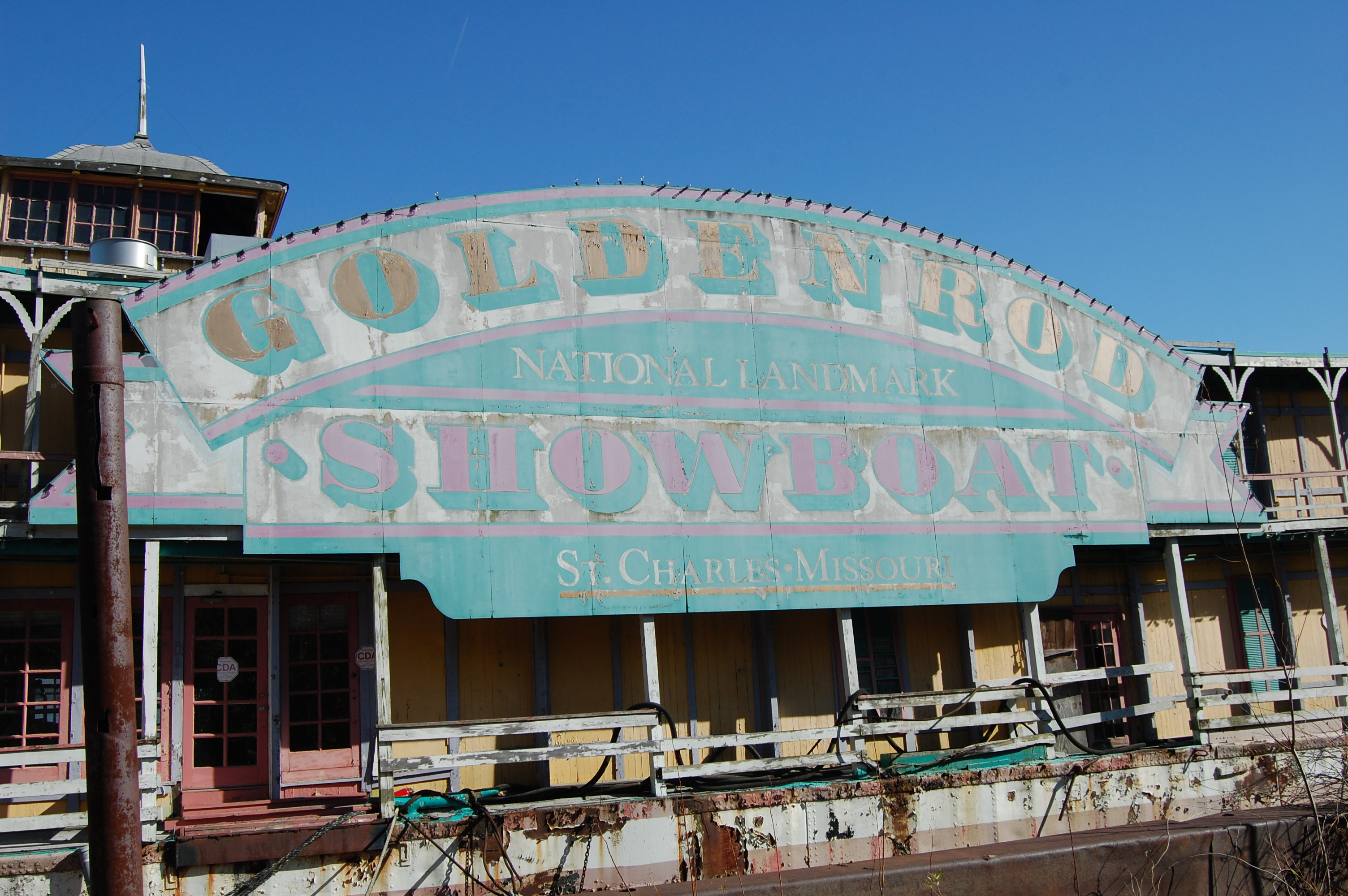 This is the front of the Goldenrod Showboat.